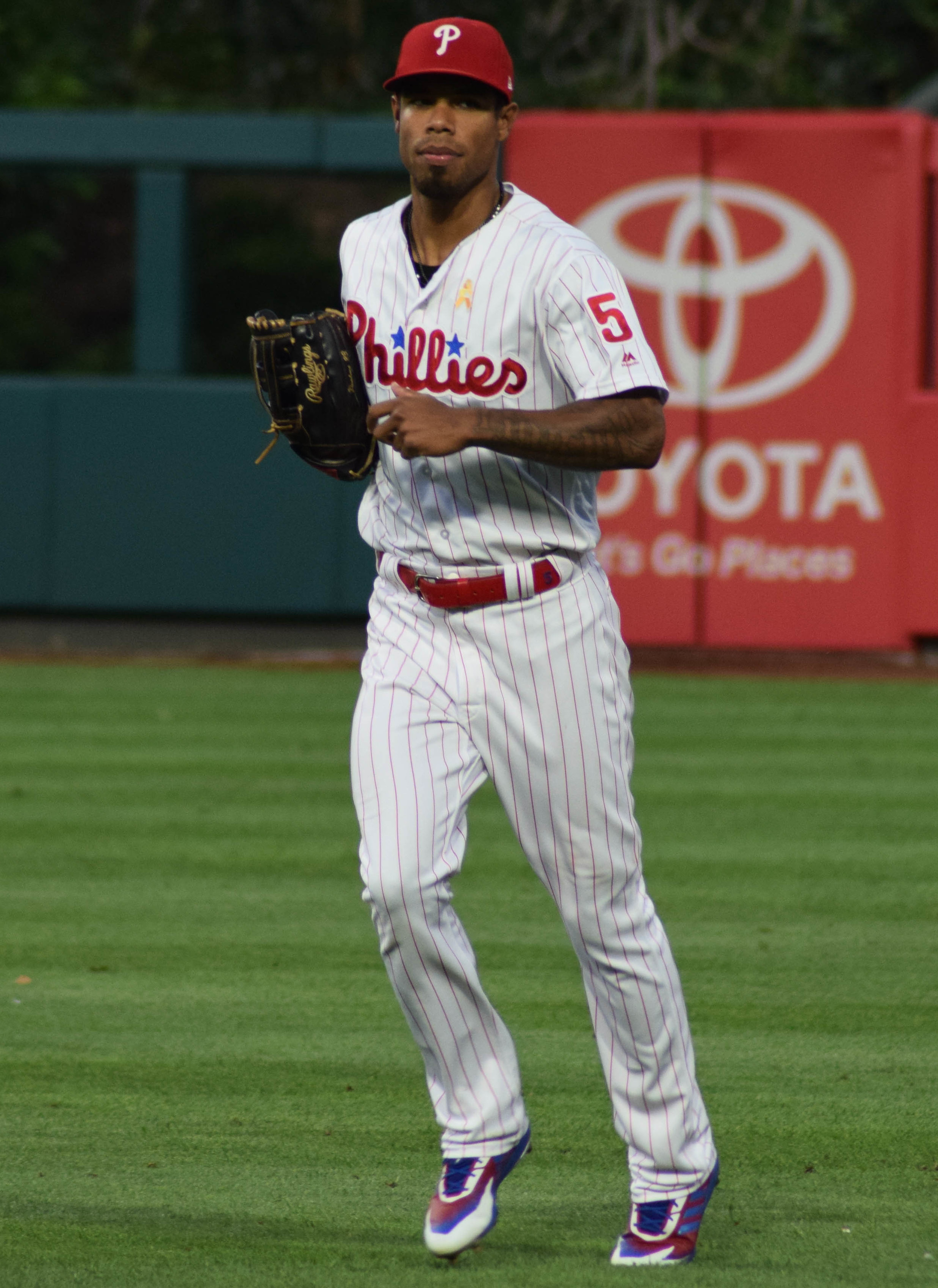 Philadelphia Phillies Right Fielder Nick Williams